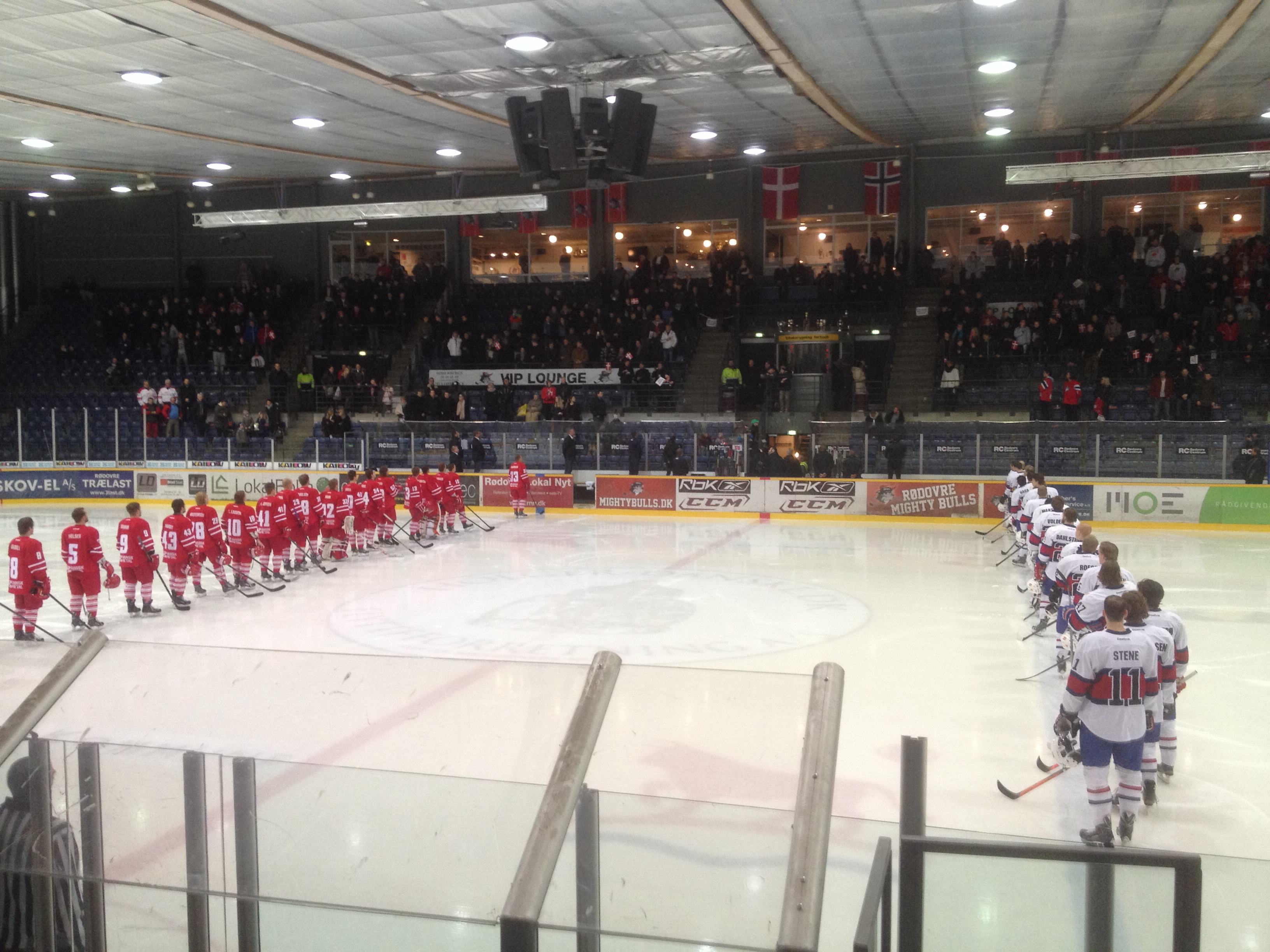 Denmark vs Norway during a ice hockey match in Rødovre, Denmark on February 7, 2015.